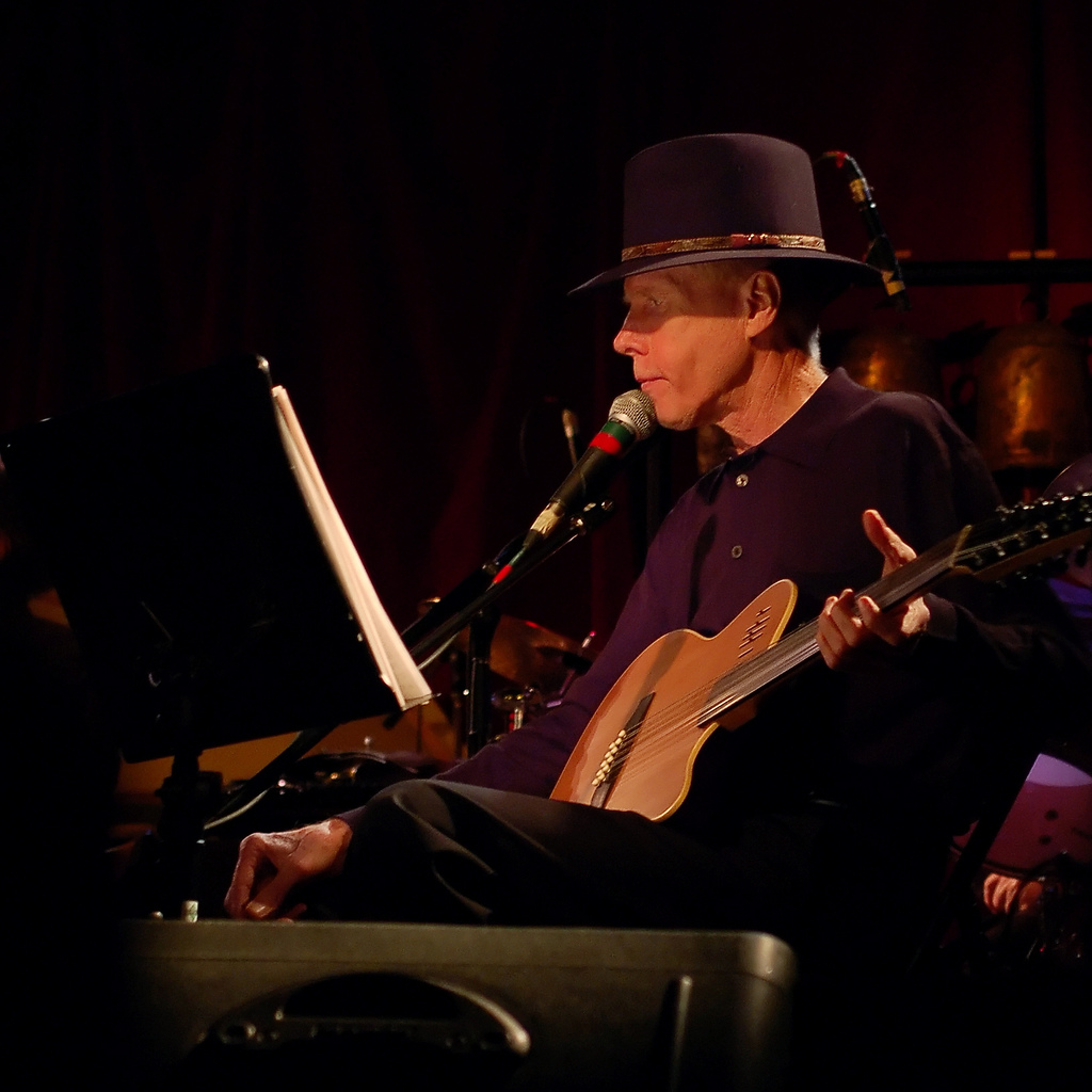 Jandek performing at the Suoni Per Il Popolo Festival in Montreal, Canada, 2007-06-24.